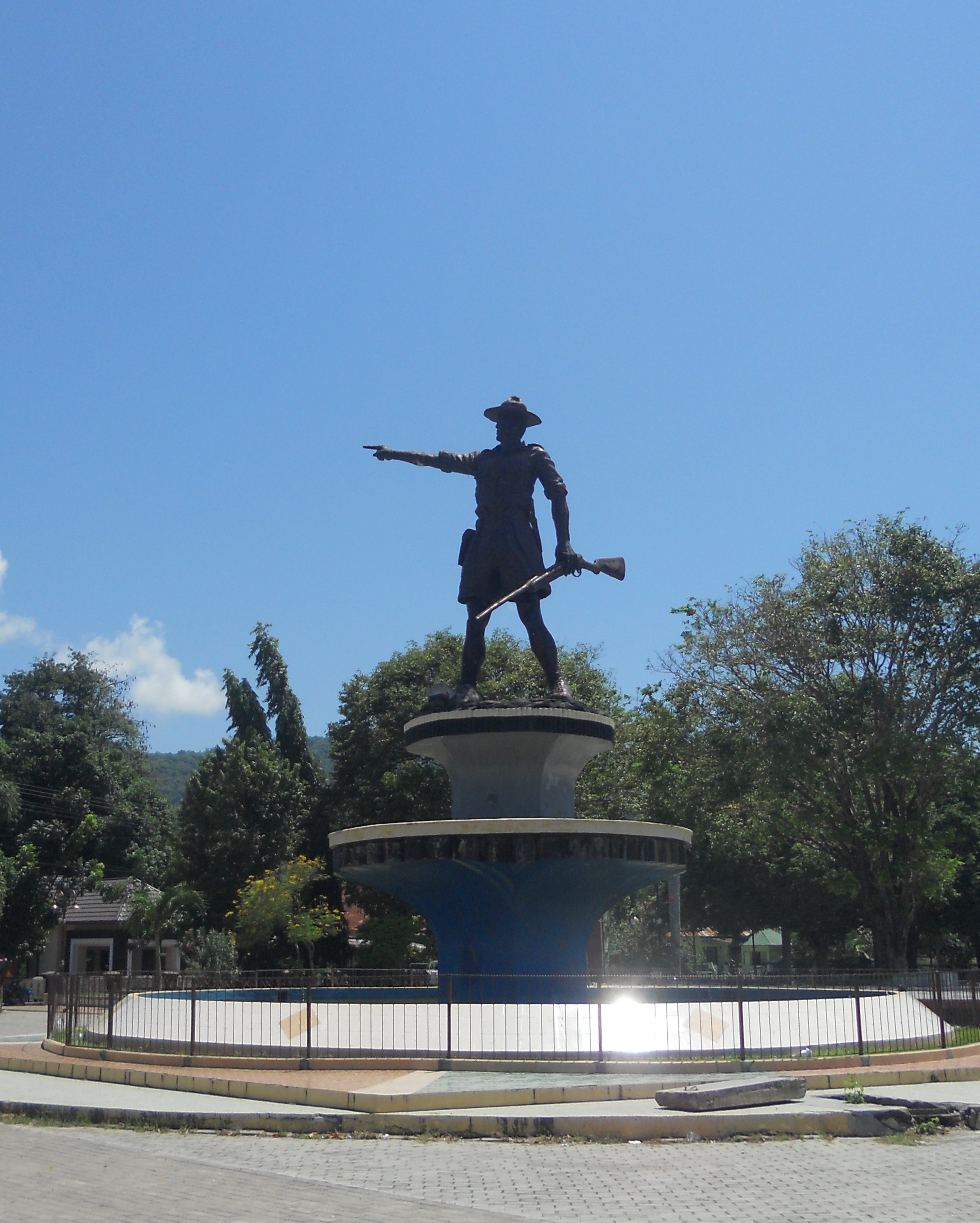 Monument at Gorontalo, IndonesiaBahasa Indonesia: Monumen Nani Wartabone